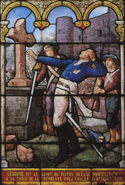 Stained glass window of the church of Saint-Pavin in Le Pin-en-Mauges representing the death of general Louis de Salgues de Lescure at the La Croix de la Tremblaye near Cholet